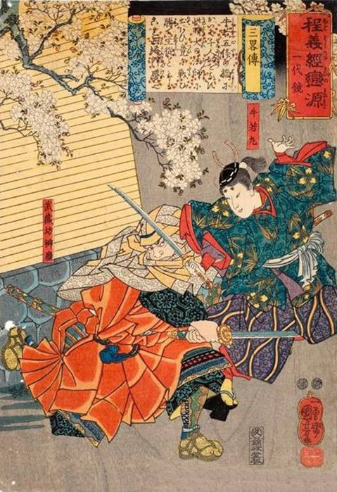 Yoshitsune and Benkei fighting with swords